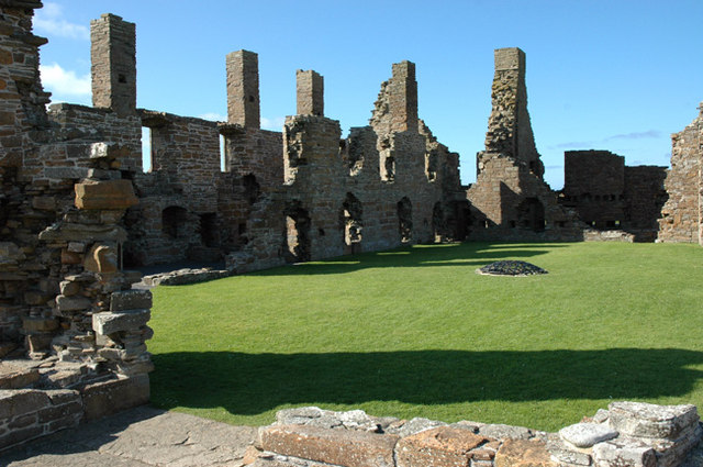 Earl's Palace, Birsay From the south entrance. The palace was founded in 1574 by Earl Robert Stuart, bastard son of James V. It was later completed by his son Earl Patrick.